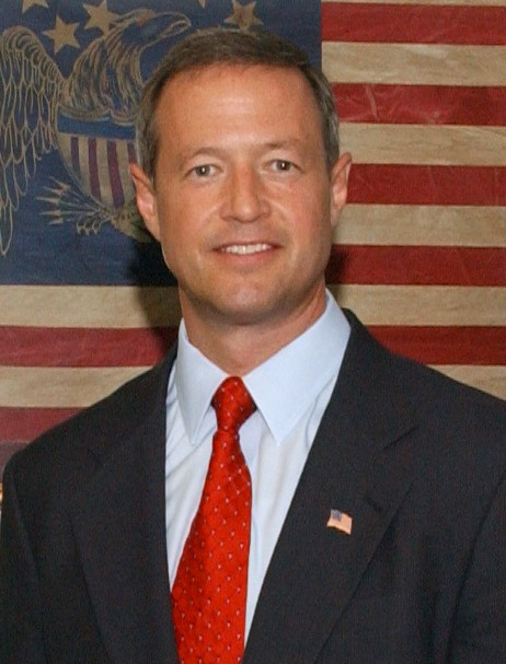 Martin O'Malley at Maryland National Guard Change of Command Ceremony at the Fifth Regiment Armory in Baltimore, Maryland.